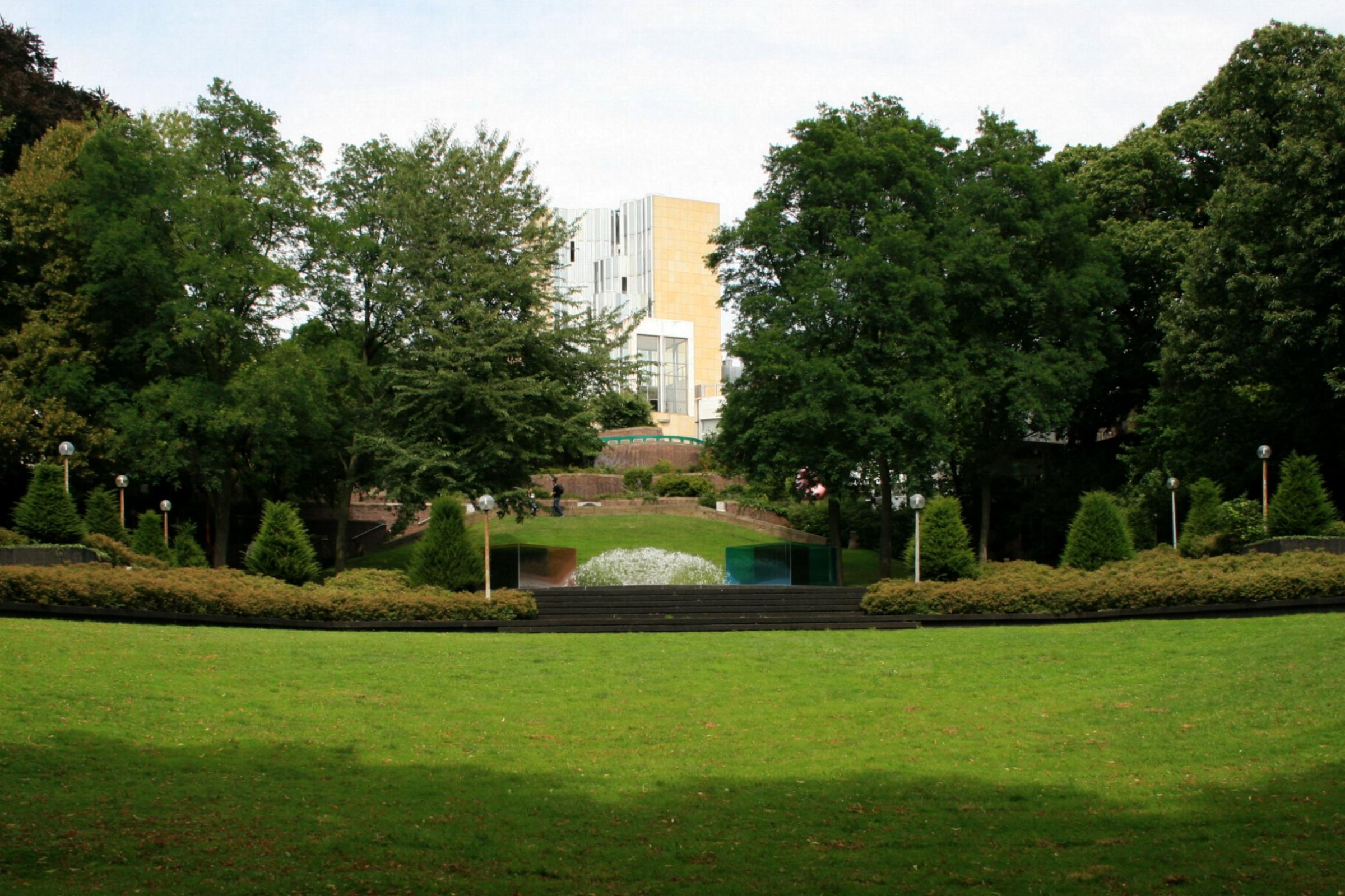 Cultural heritage monument No. A 046 in Mönchengladbach